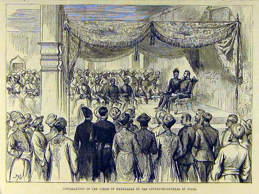 "Installation of the Nizam of Hyderabad by the Governor-General of India," from the Illustrated London News, 1884 Source: ebay, Feb. 2007